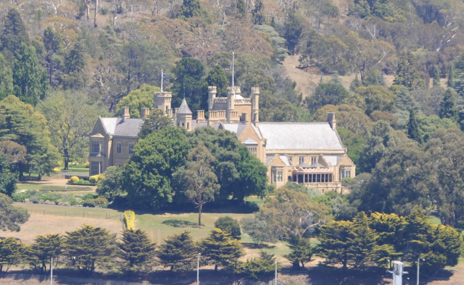 Government House, Hobart viewed from eastern shore of Derwent River